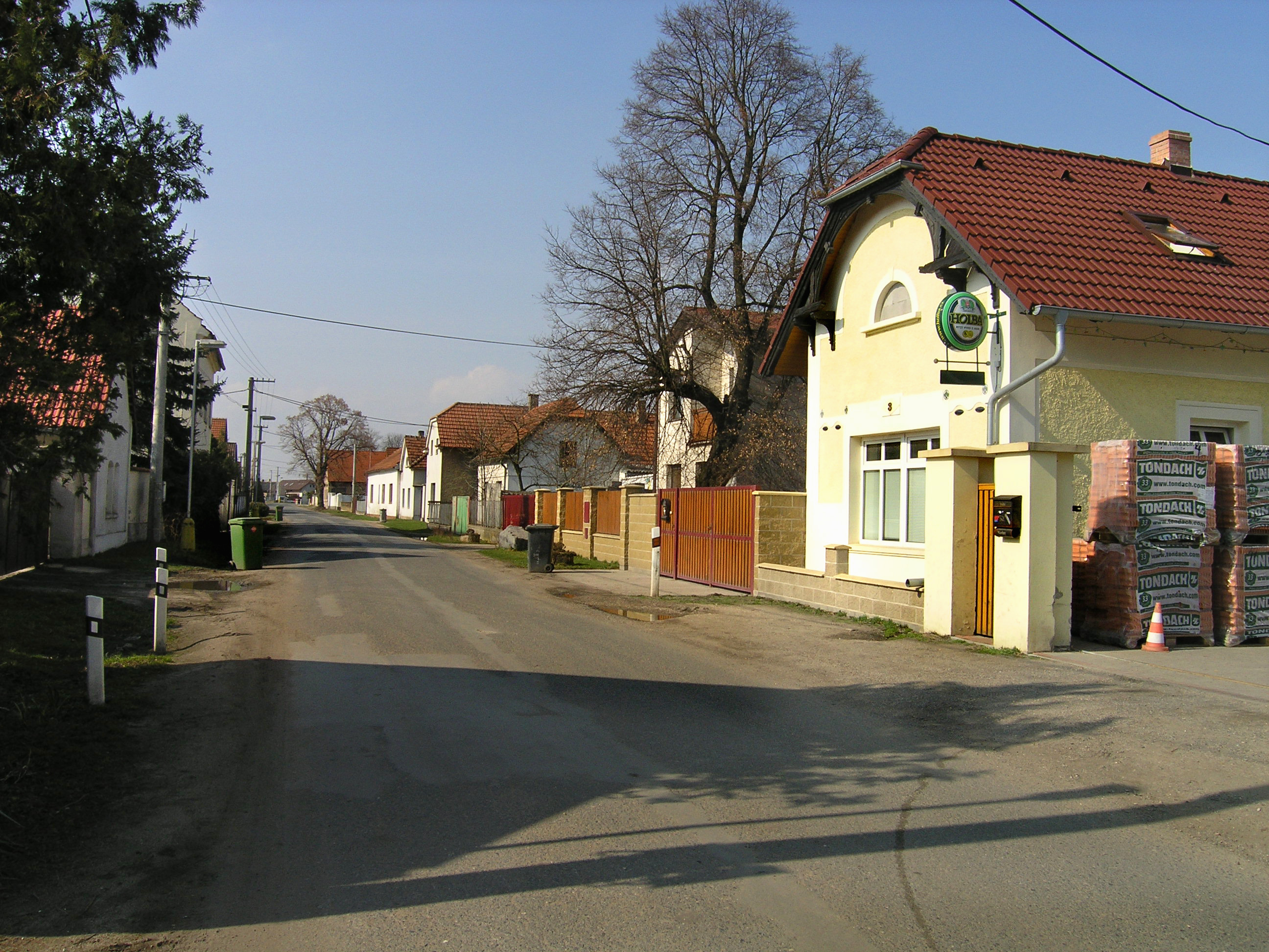 North part of Nedomice village, Czech Republic